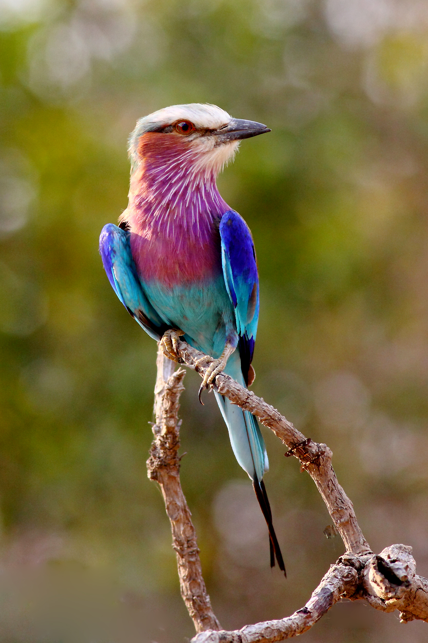 Lilac-breasted Roller at South Luwanga Ntional Park